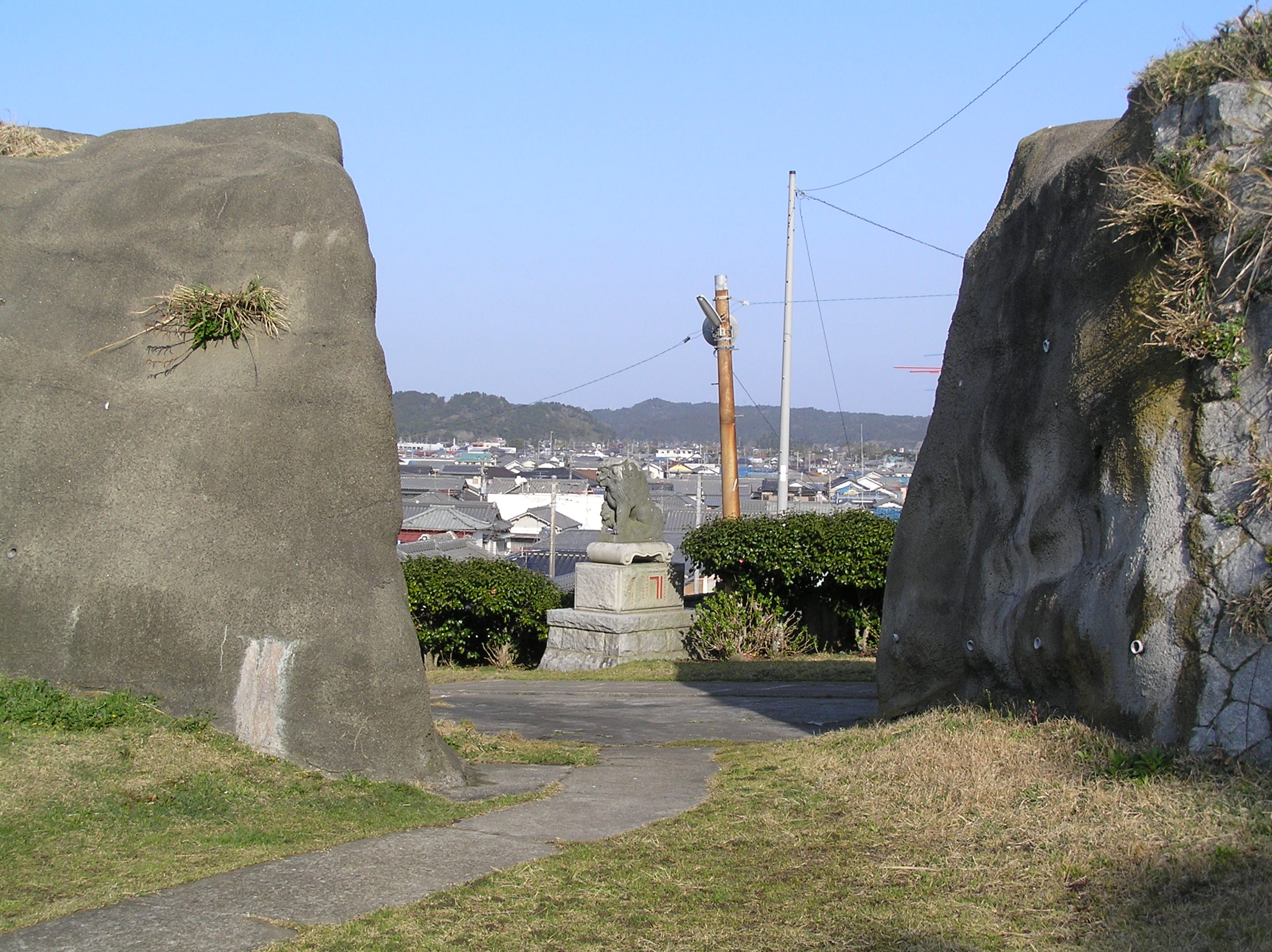 Ohara-Tiba